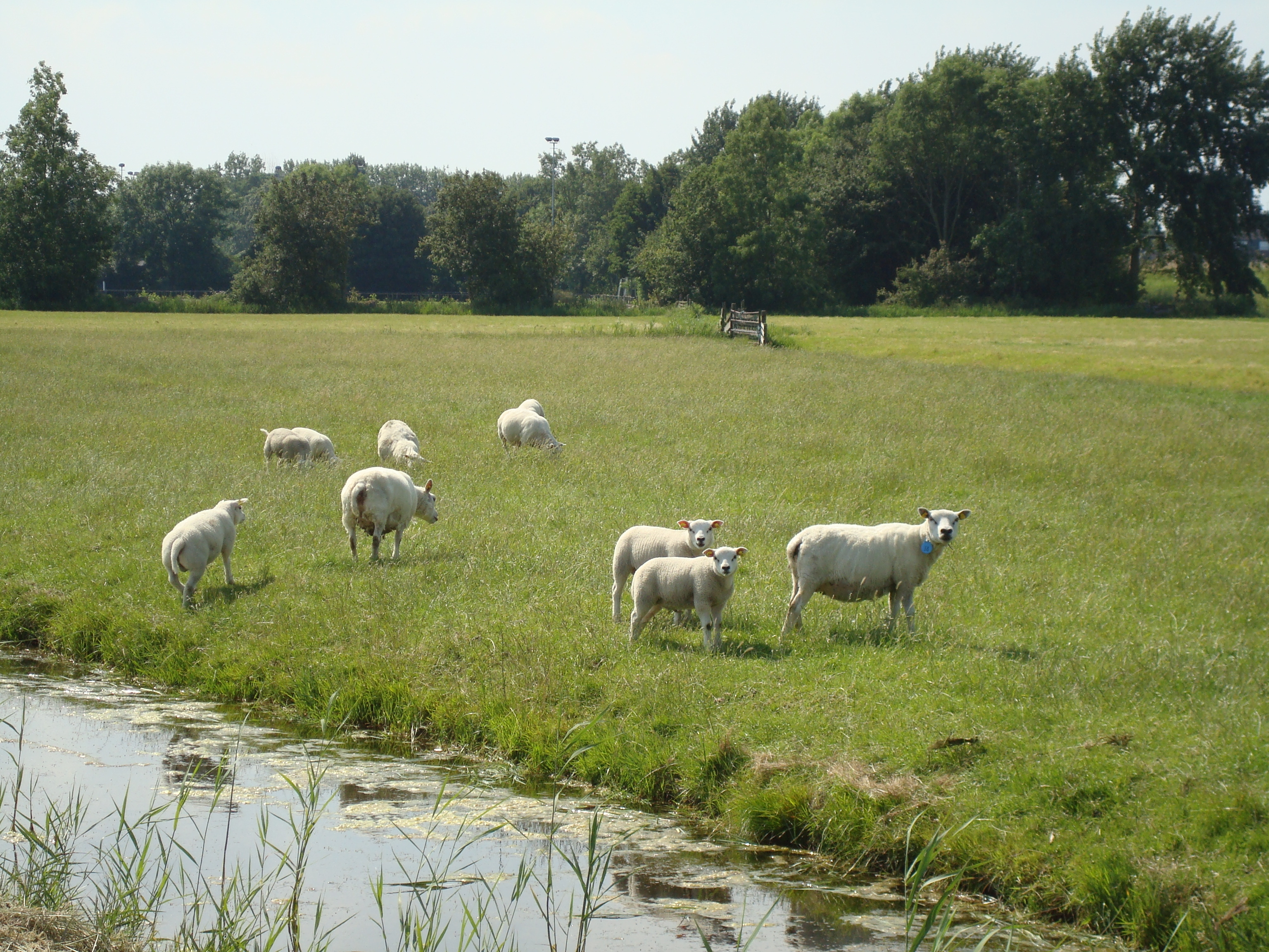 Marken